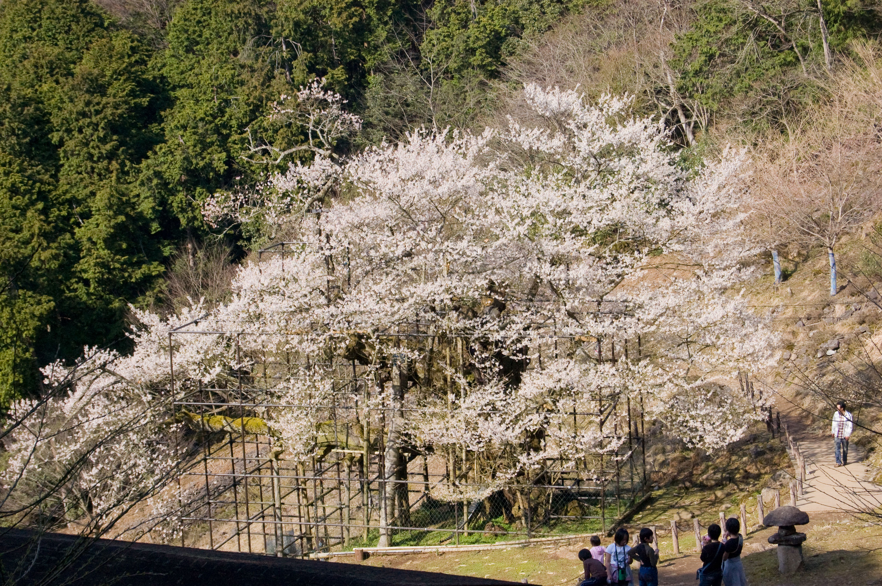 This picture is taken by me(User:Mitumata)at Taruminooozakura in Yabu city Japan.